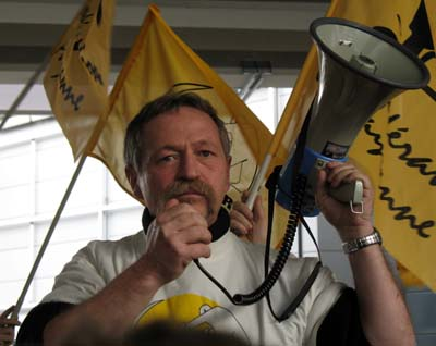 José Bove at an anti GMO protest at the Salon International de l'Agriculture, Paris, 4 March 2006. Photographer: Helen Dowd.